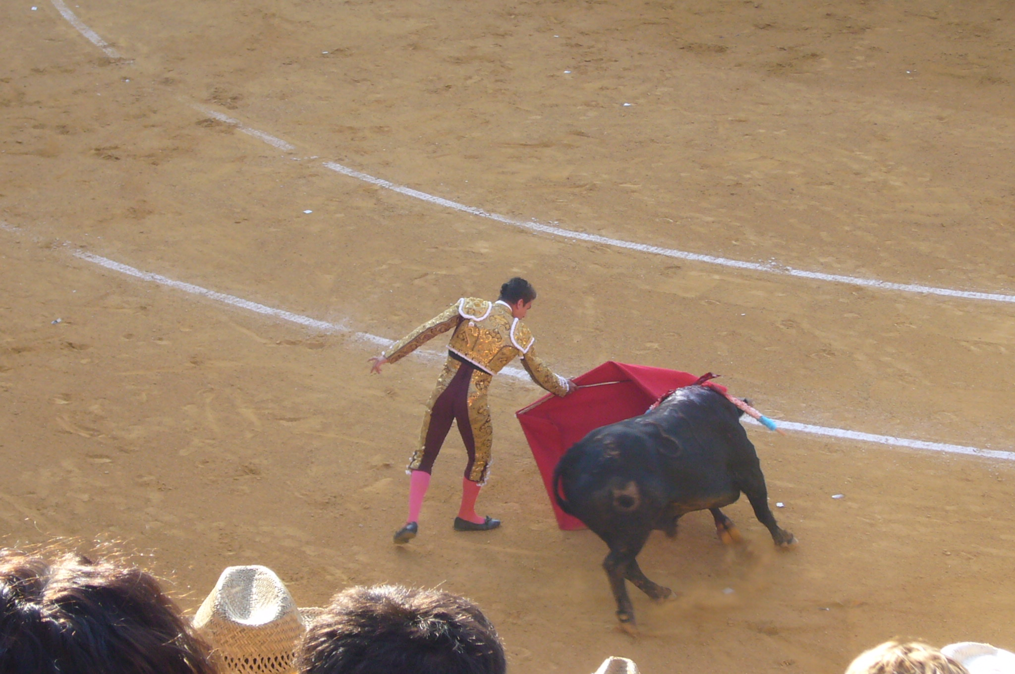 José María Manzanares son, fight bulls in the San Juan Fair in Alicante 2009.